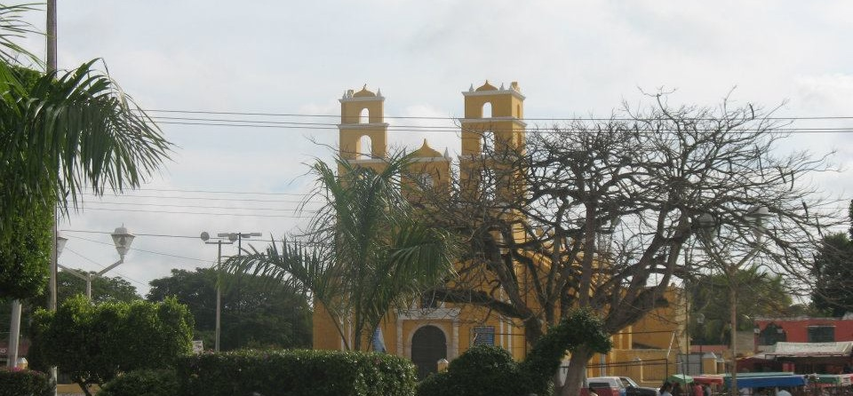 Church in the main square at Acanceh, Yucatán